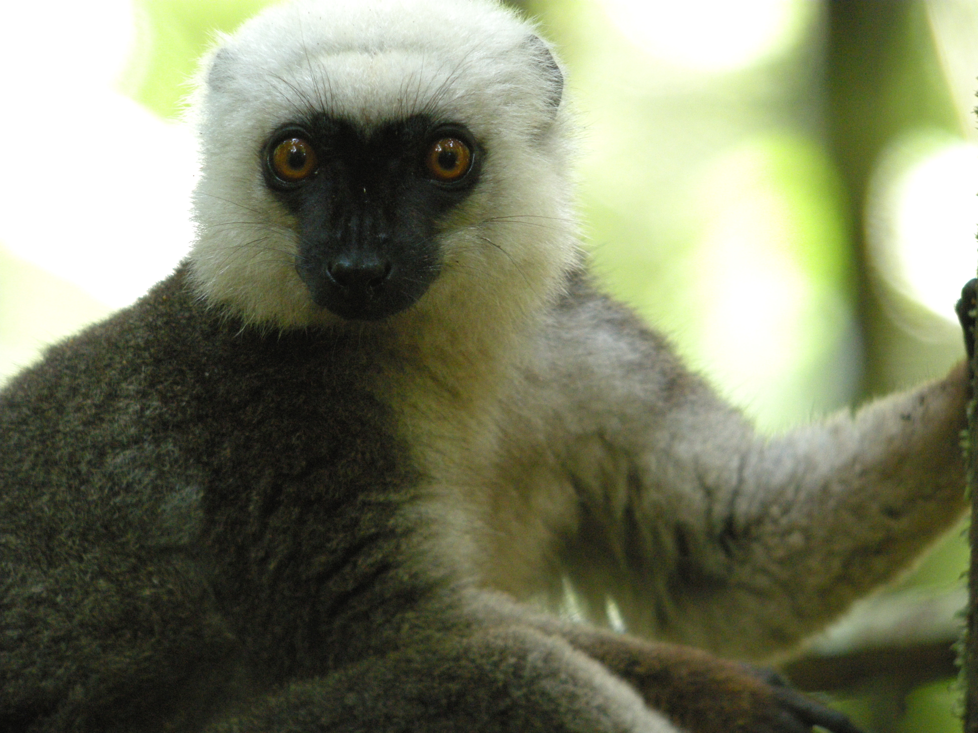 White-headed Lemur, Masoala National Park, Madagascar Swarowski 80 HD 30 X, Coolpix P5100 (Adapter DCB)